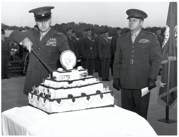 Franklin A. Hart cuts the Marine Corps birthday cake in 1951. Caption: Then-Col David M. Shoup, Commanding Officer, The Basic School (TBS) looks on as then-LtGen Franklin A. Hart cuts the first piece of cake at the 1951 Marine Corps Birthday Celebration, TBS, Quantico. Candles were still the norm. )